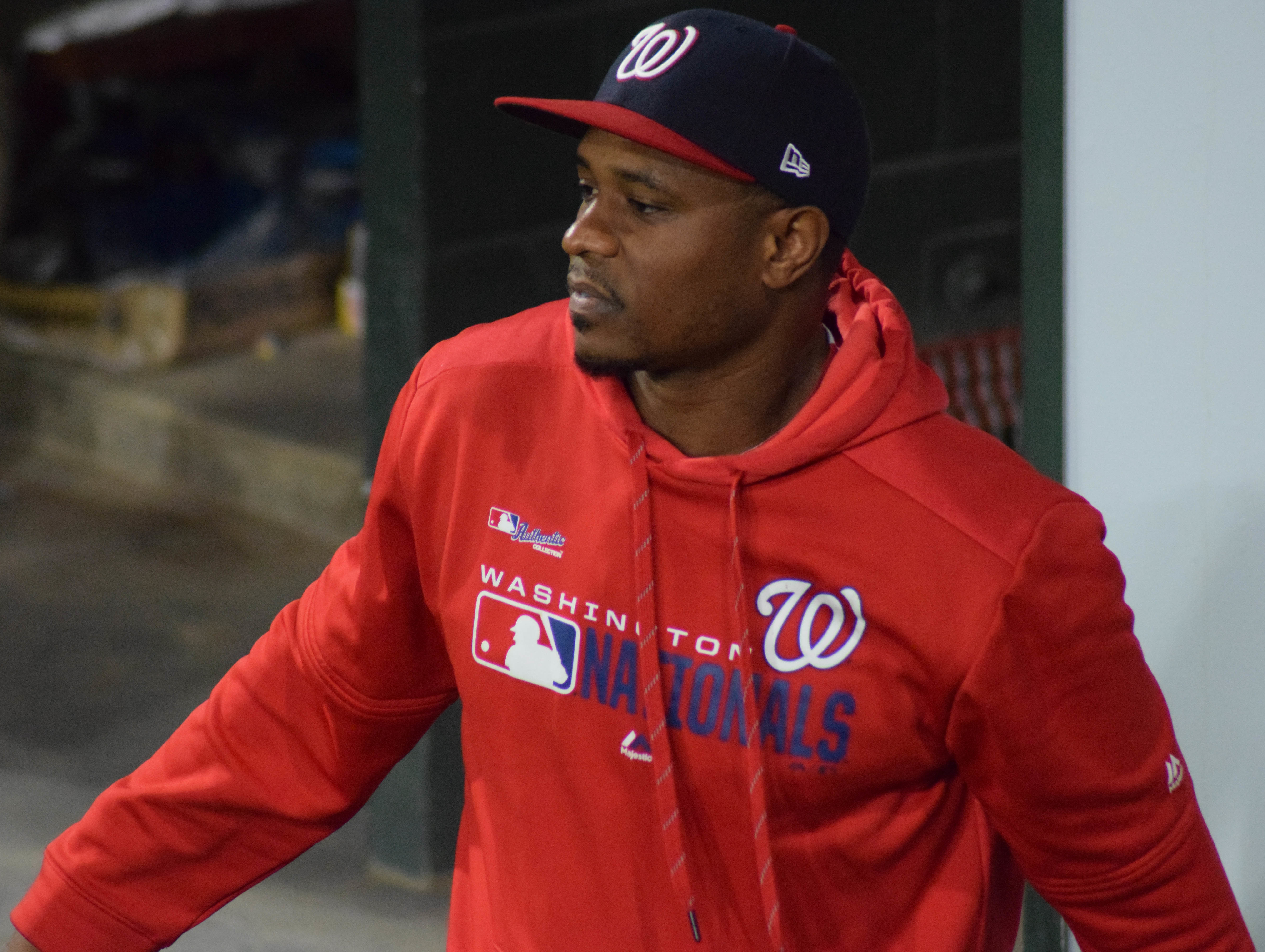 Washington Nationals pitcher Tony Sipp in the bullpen during a 2019 game at Citizens Bank Park in Philadelphia